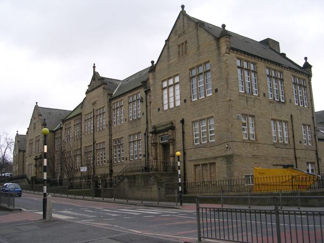 Heckmondwike Grammar School - High Street Built 1897.